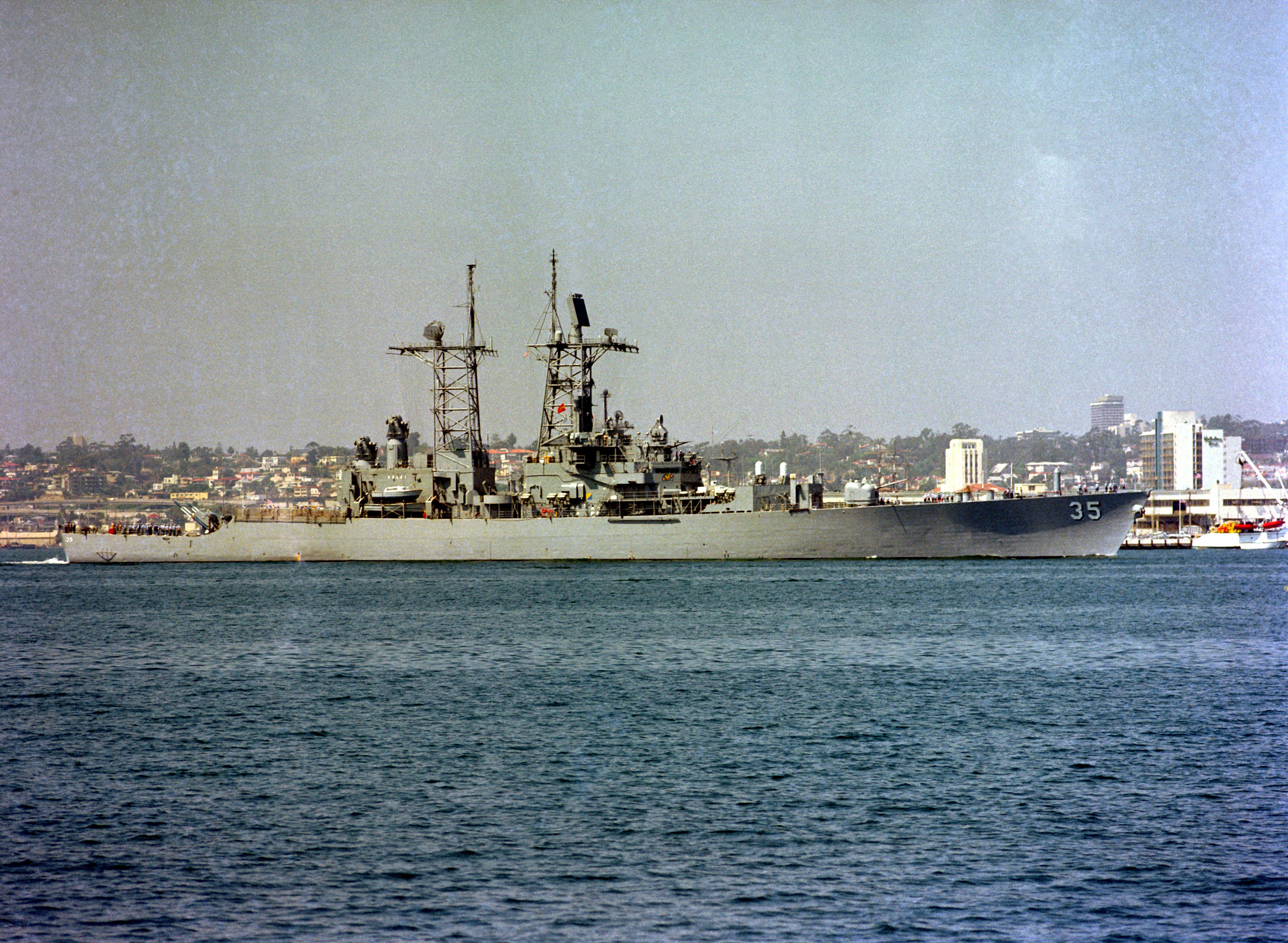 The U.S. Navy guided missile cruiser USS Truxtun (CGN-35) underway in San Diego Bay (USA), on 27 July 1984.